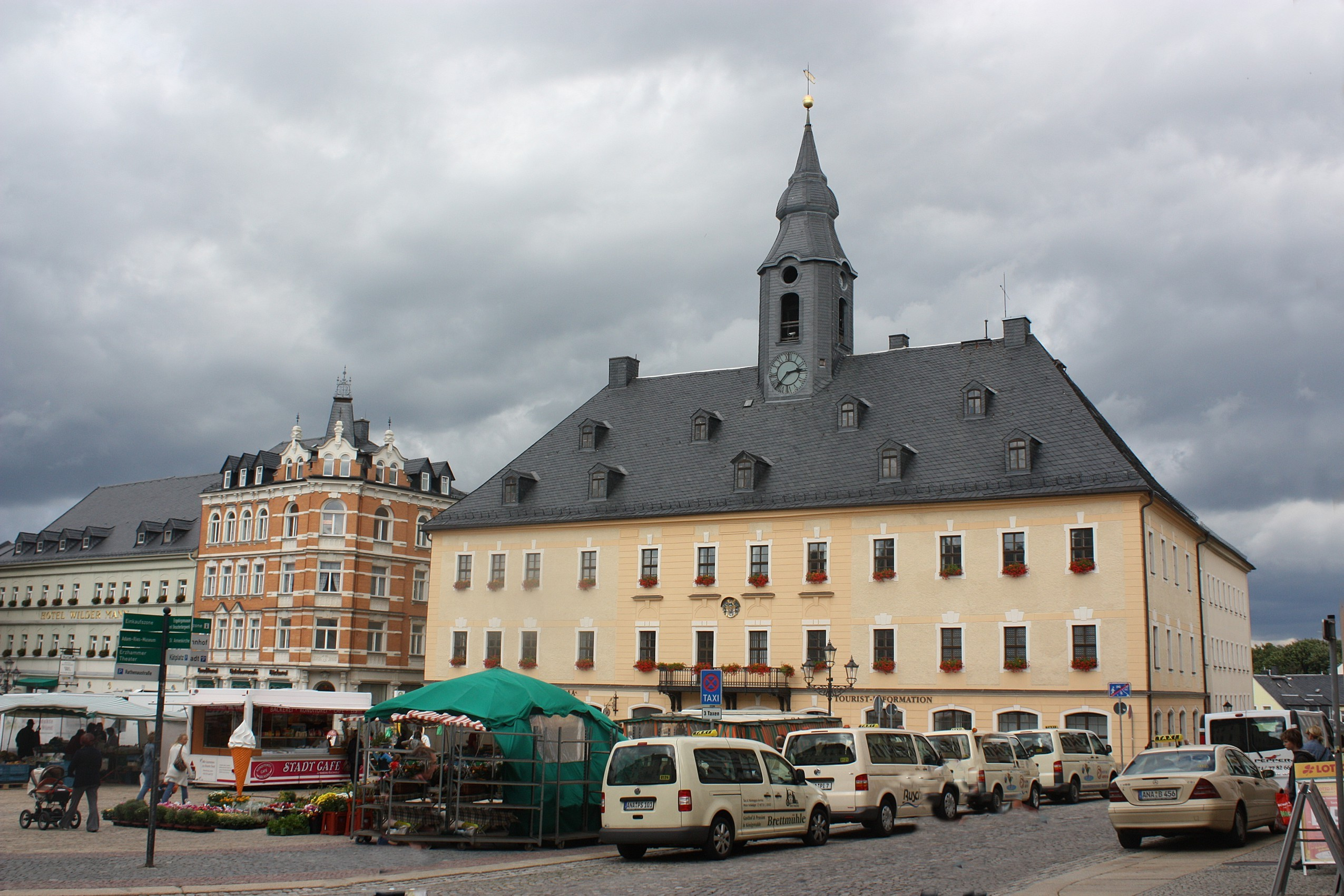 Annaberg-Buchholz, the town hall